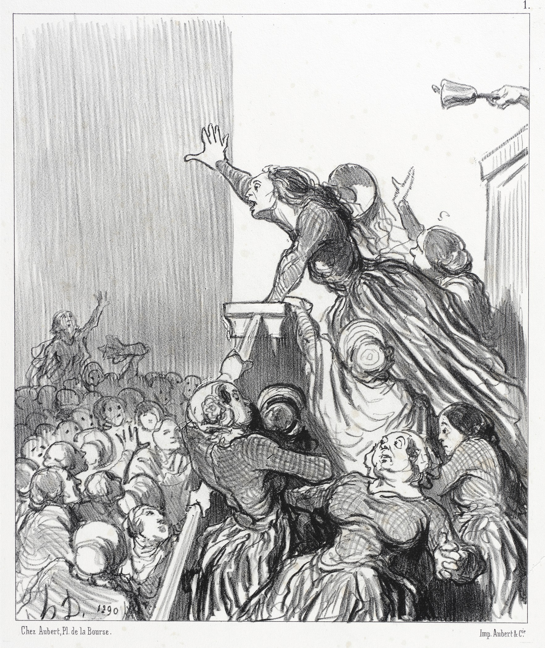 France, 1848 Series: Les Divorceuses, plate 1 Prints; lithographs Lithograph Gift of Ben and Shirley Berman (M.83.291.4) Prints and Drawings